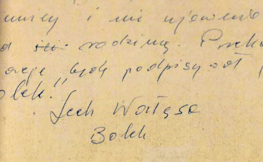 Signature Lech Wałęsa-Bolek on the collaboration agreement with Służba Bezpieczeństwa